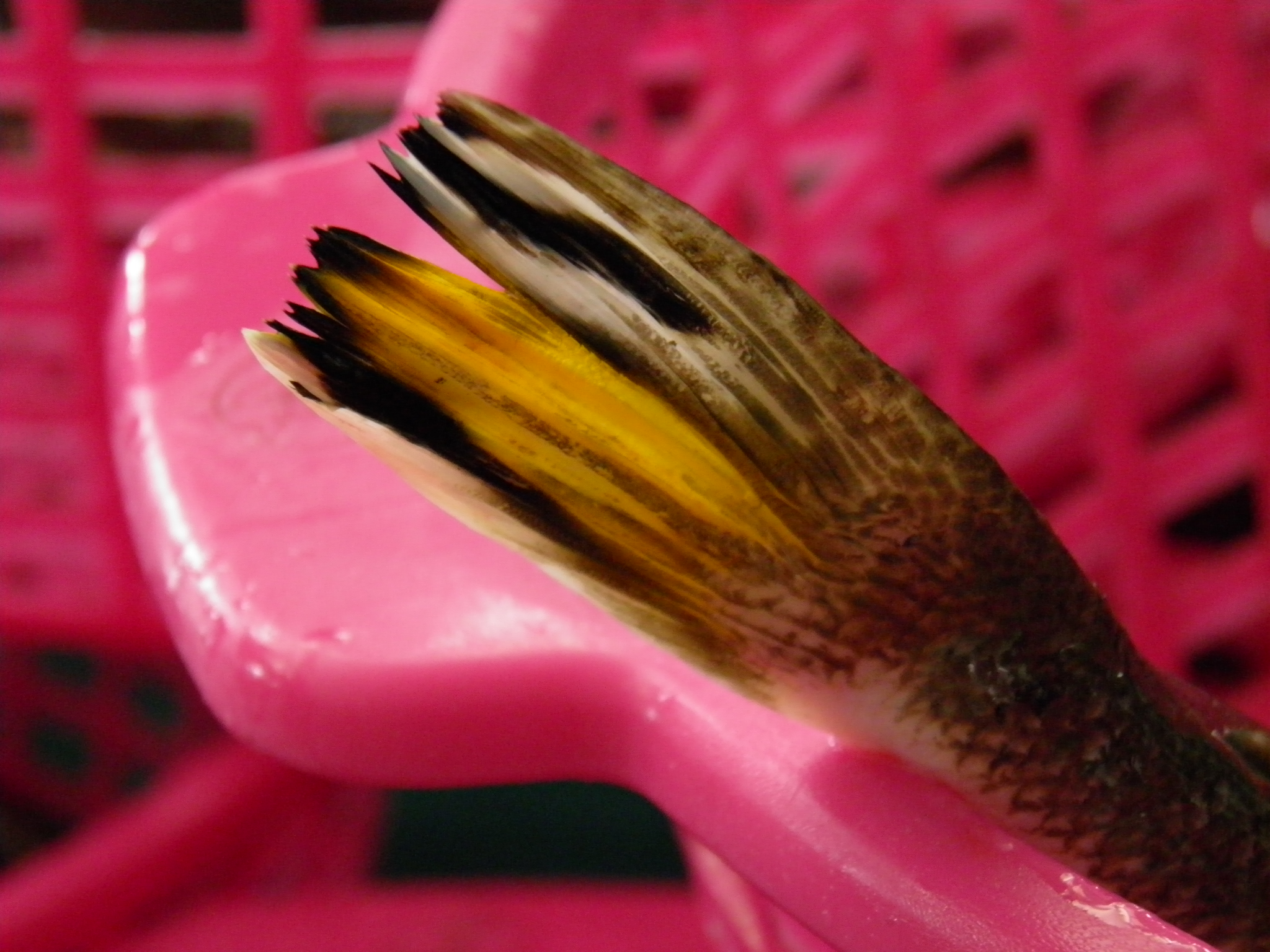 Platycephalus indicus (caudal fin) from fish market in Taiwan